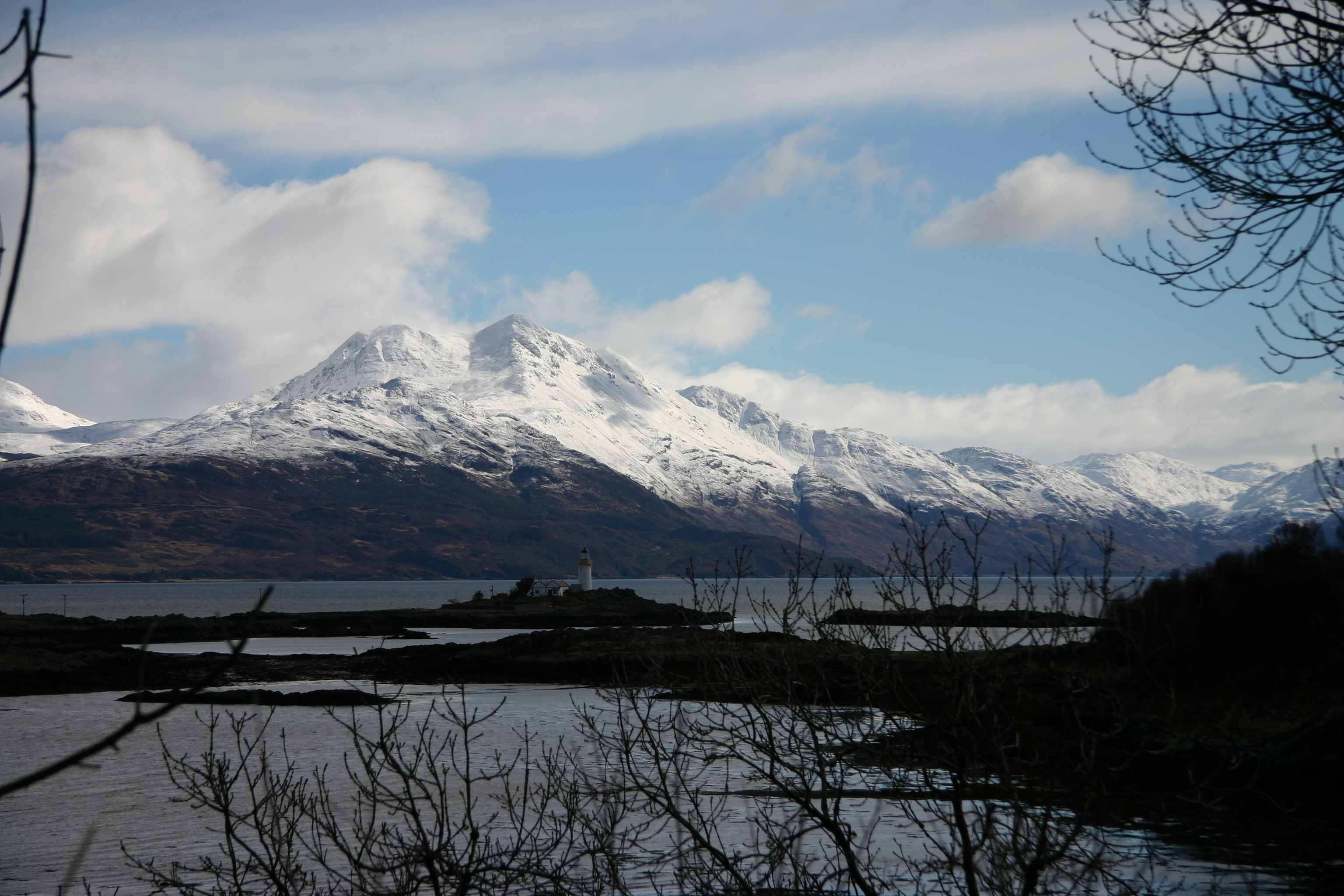 Isle Ornsay, the Sound of Sleat and the snowy Knoydart hills